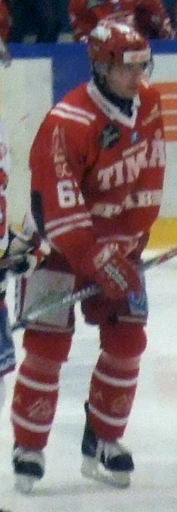 Ice hockey player Petr Tenkrát of Timrå IK in E.ON Arena, Timrå, Sweden